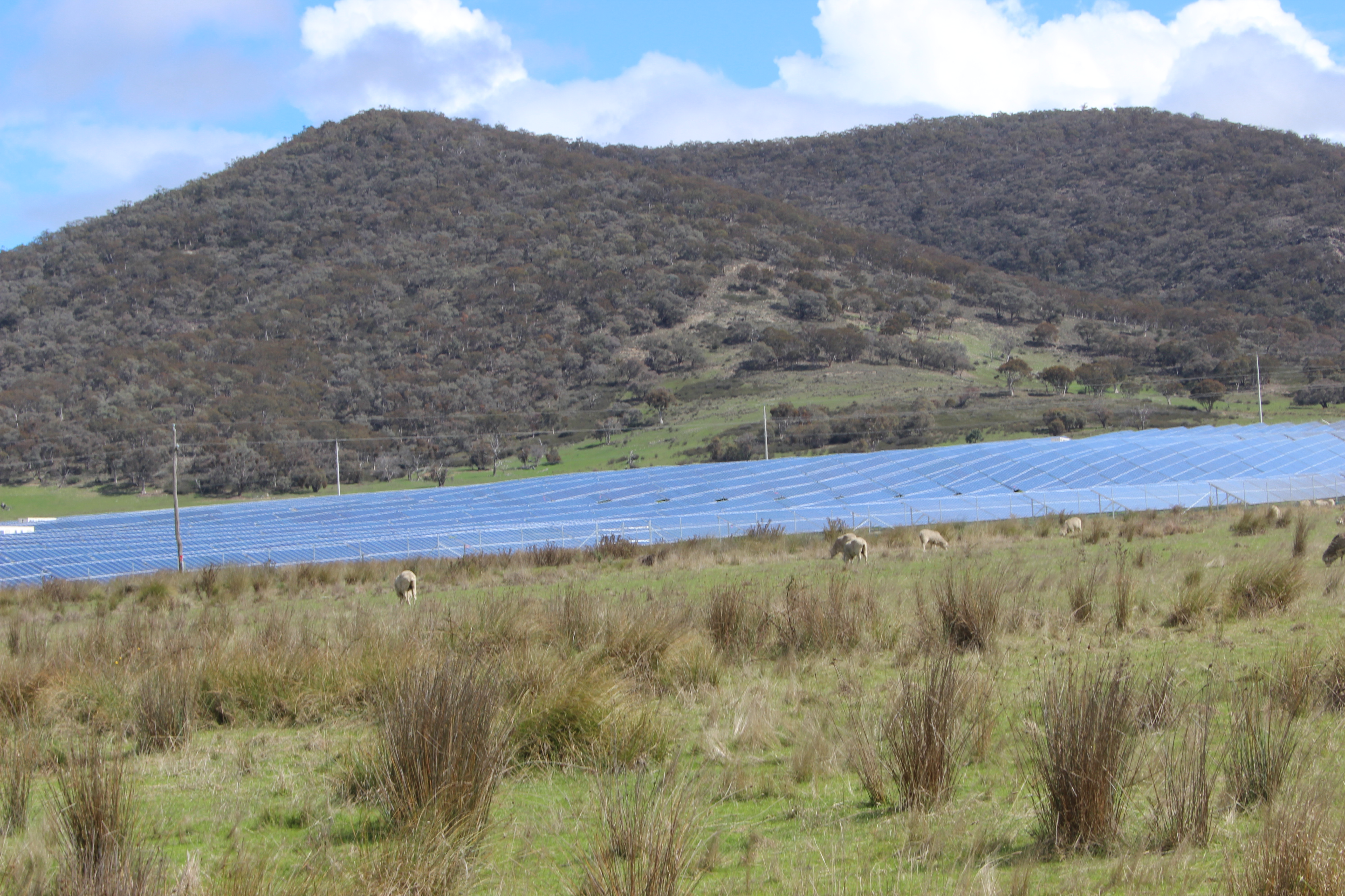 Royalla Solar Farm